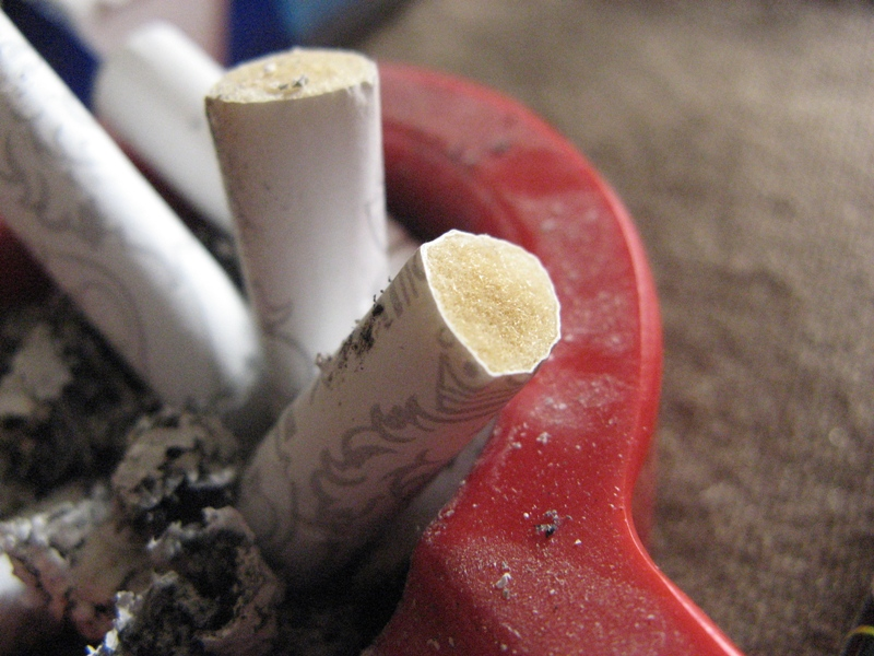 cigarette butts